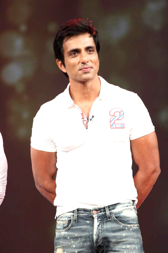 Sonu Sood at Sushmita and John at Raveena's chat show for NDTV